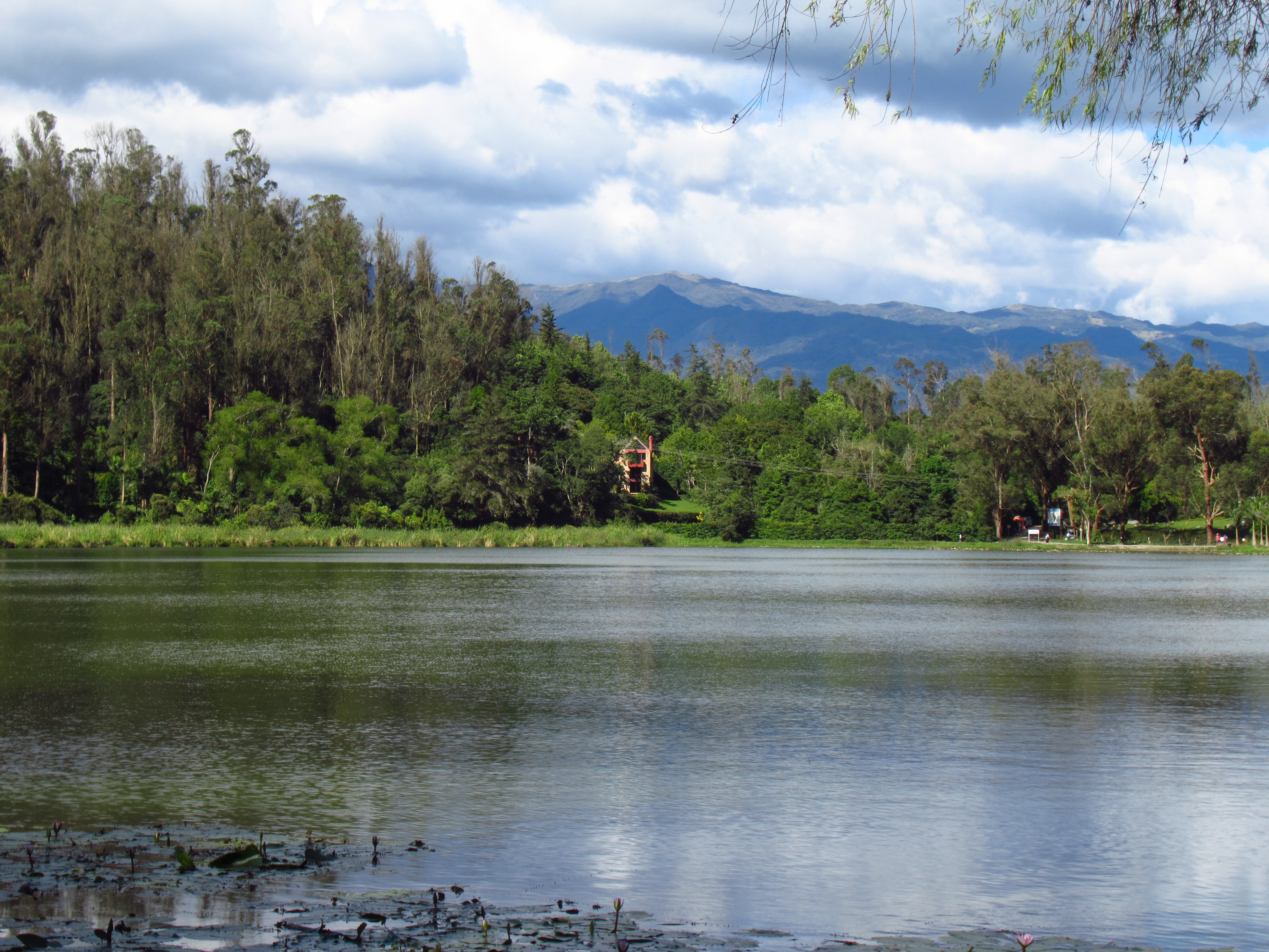 Ubaque